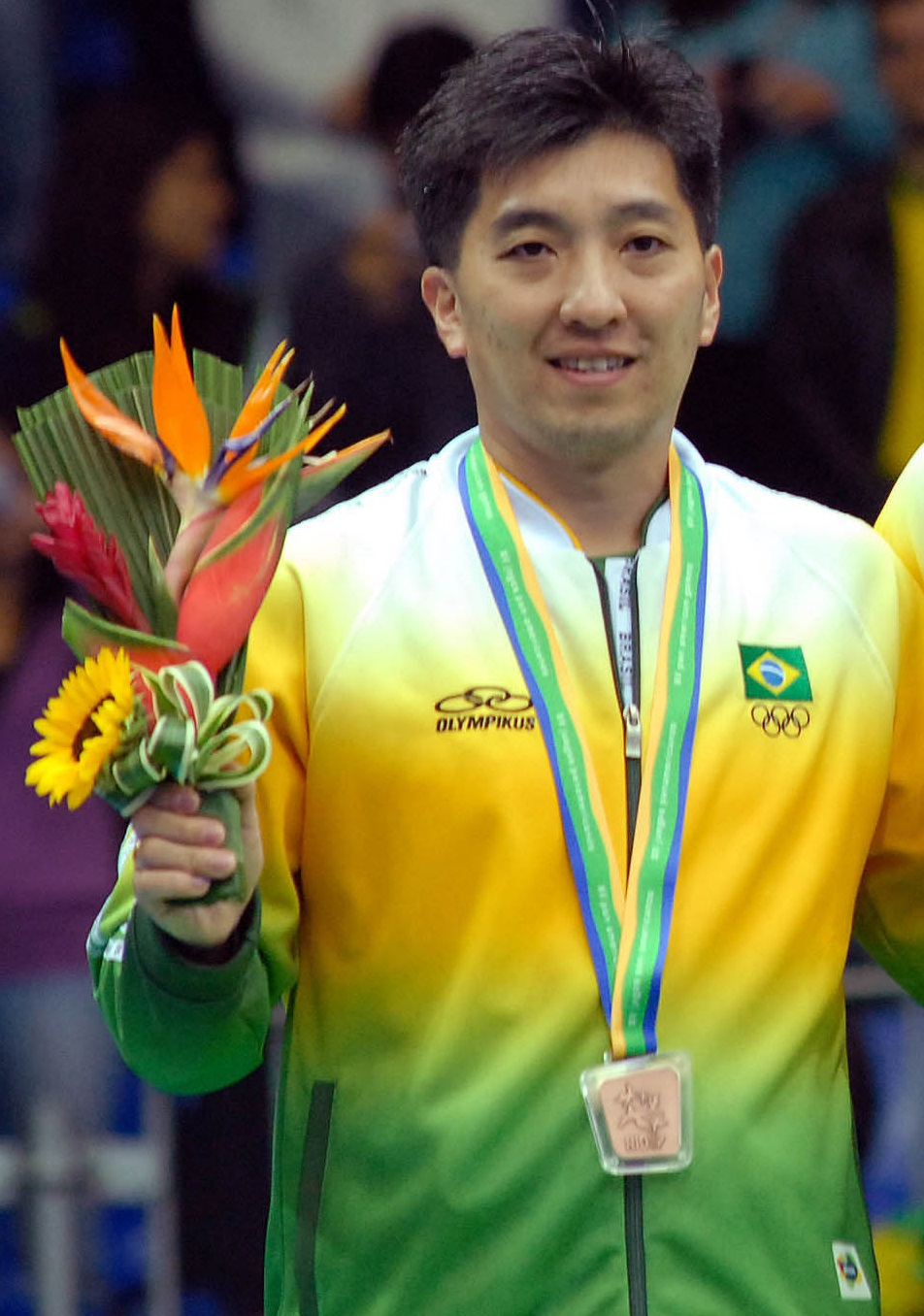 Hugo Hoyama third in the Men's Singles table tennis tournament at the 2007 Pan American Games in Rio de Janeiro.